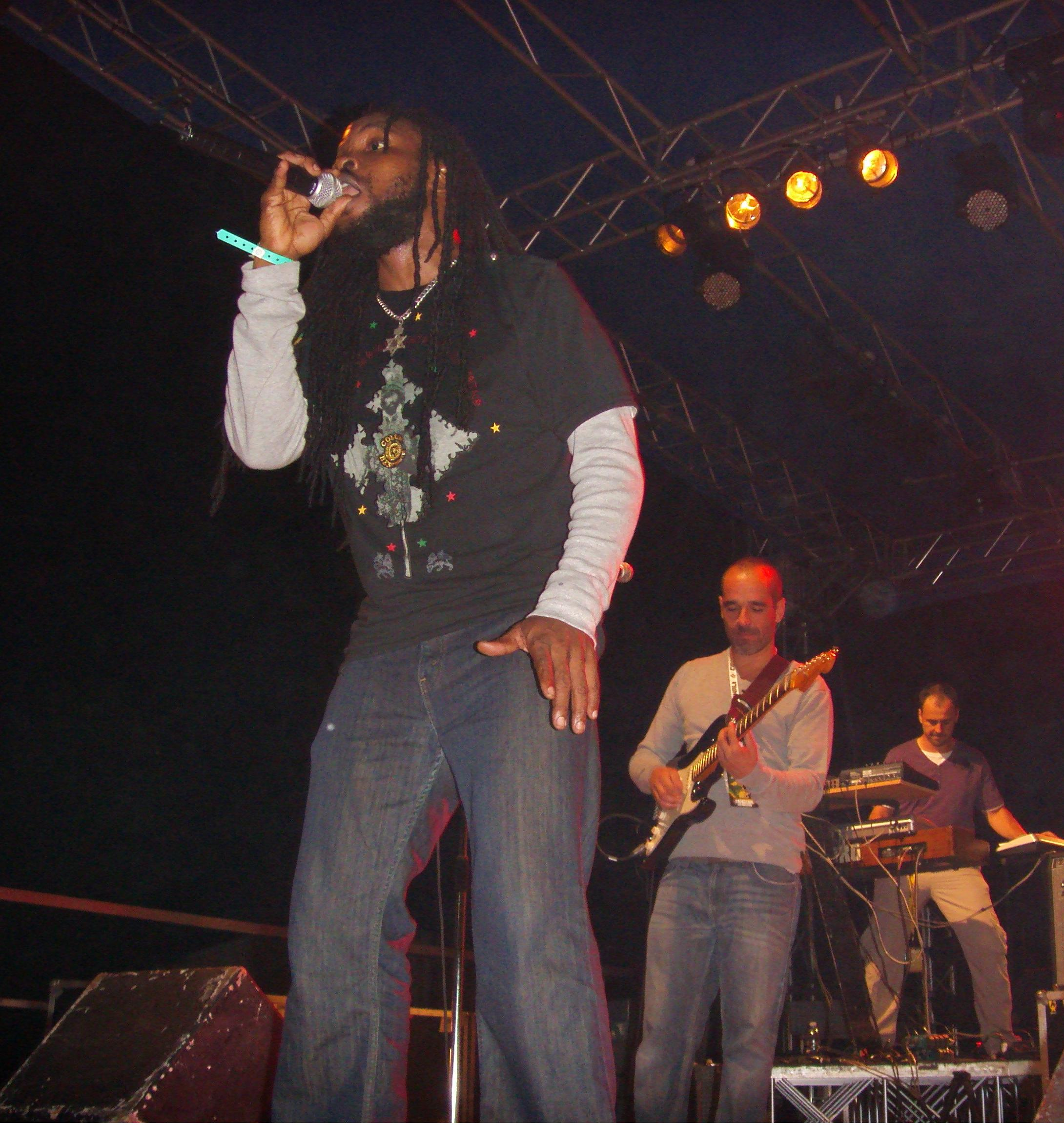 Bushman live at Filagosto festival 2010